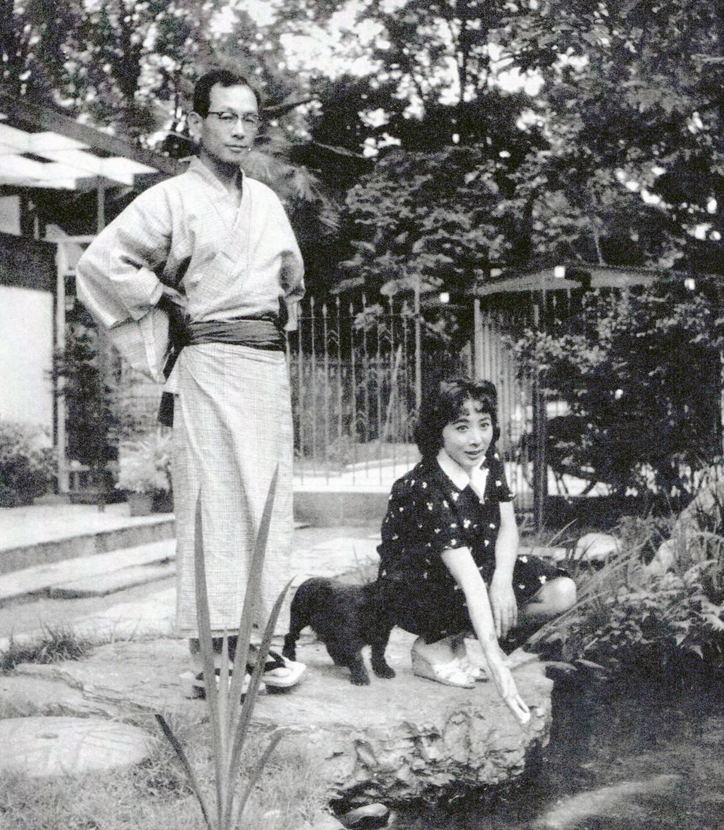 Umetsugu Inoue(left) and Yumeji Tsukioka